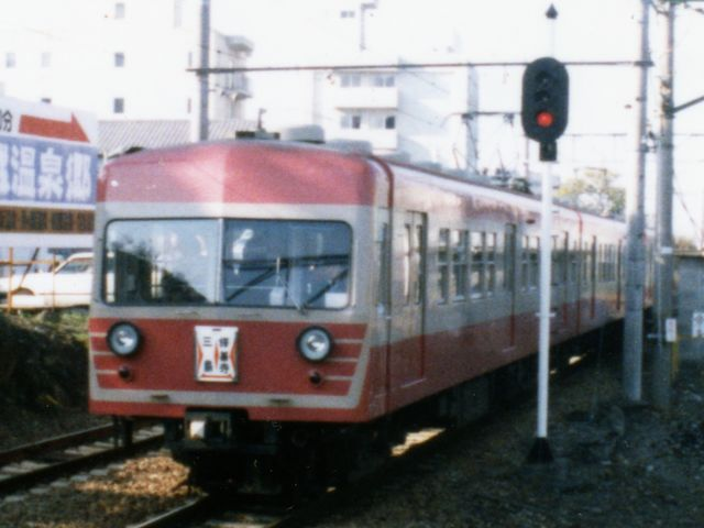 Izuhakone type 1000(First Formation)